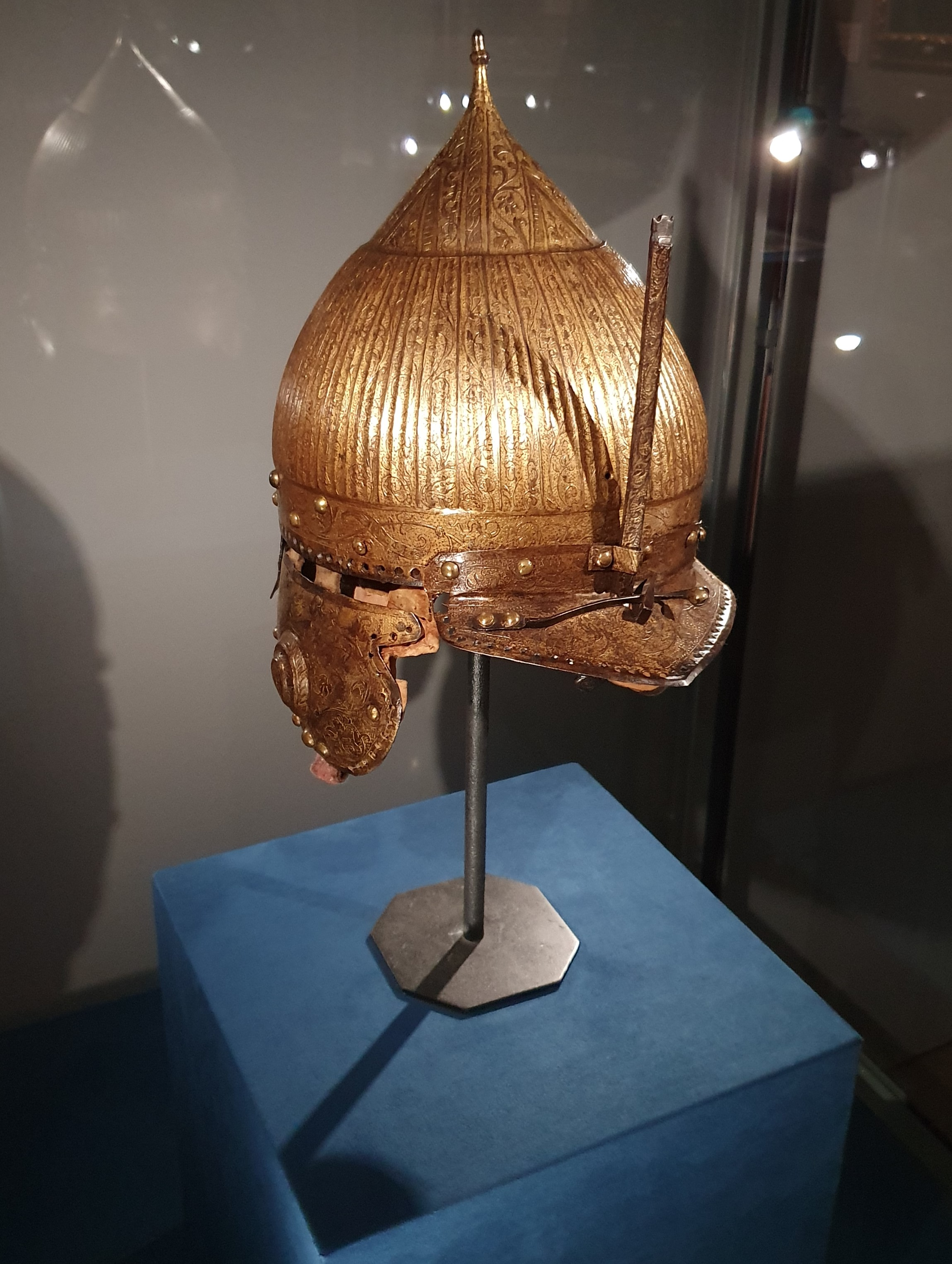 Lobster-tailed pot helmet of Mikołaj "the Black" Radziwiłł. It was made in 1561, in Germany. It was photographed during an exhibition at the Palace of the Grand Dukes of Lithuania.